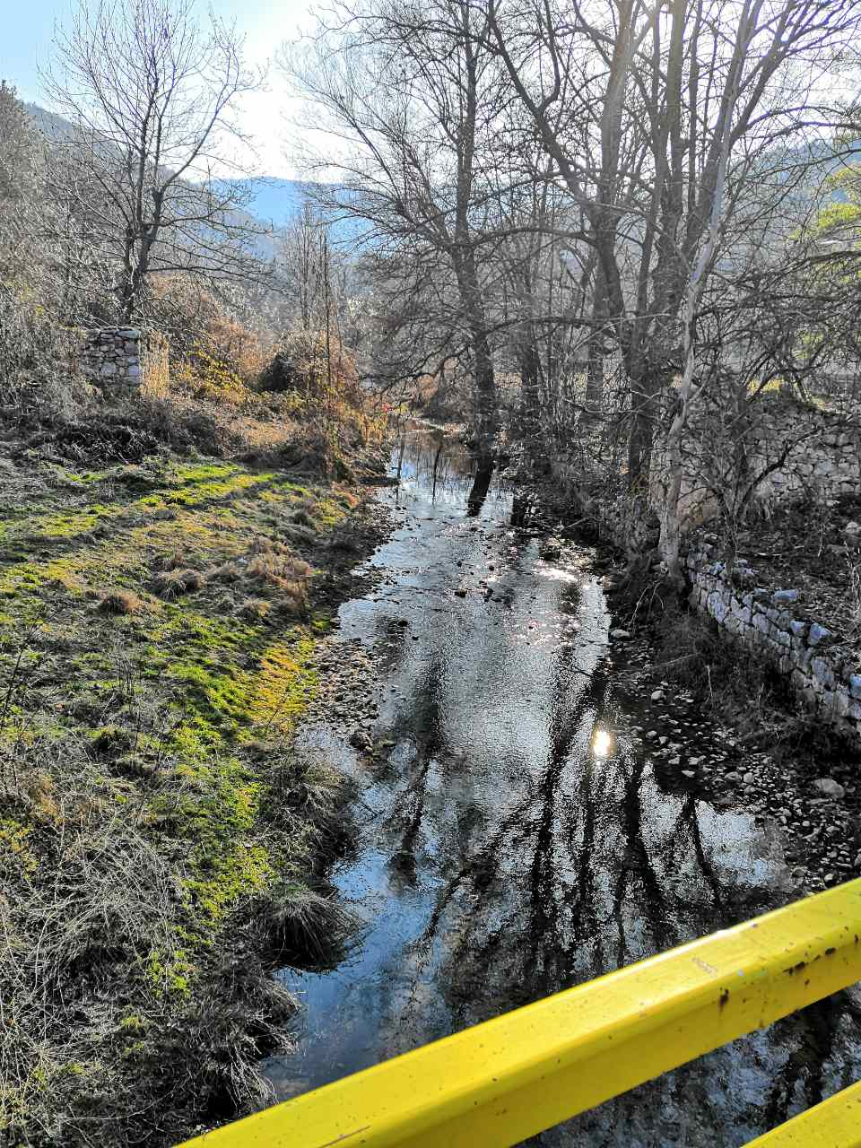 River in village Rasnica